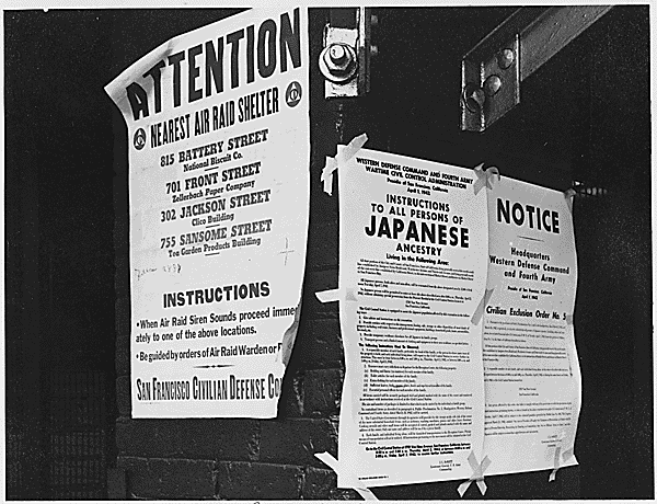 full caption from the original photo:San Francisco, California. On a brick wall beside air raid shelter poster, exclusion orders were posted at First and Front Streets directing removal of persons of Japanese ancestry from first San Francisco section to be affected by evacuation. The order was issued April 1, 1942, by Lieutenant General J.L. DeWitt, and directed evacuation from this section by noon on April 7, 1942. カリフォルニア州 サンフランシスコ、フロント通りと一番通りの交差点。レンガの壁に空襲時のシェルターの案内の横に張り出された日系人対象のポスター。サンフランシスコの第一区域に住む日系人は立ち退くように通告されている。この命令はJ.L.デウィット中将によって1942年4月1日に発布され、同年4月7日正午までにこの地域からの立ち退きを告知するものであった。